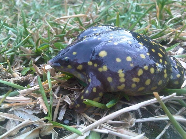 Hemisus guttatus - Spotted shovel-snouted frog - Zululand, South Africa